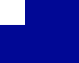 Djambi, merchant flag